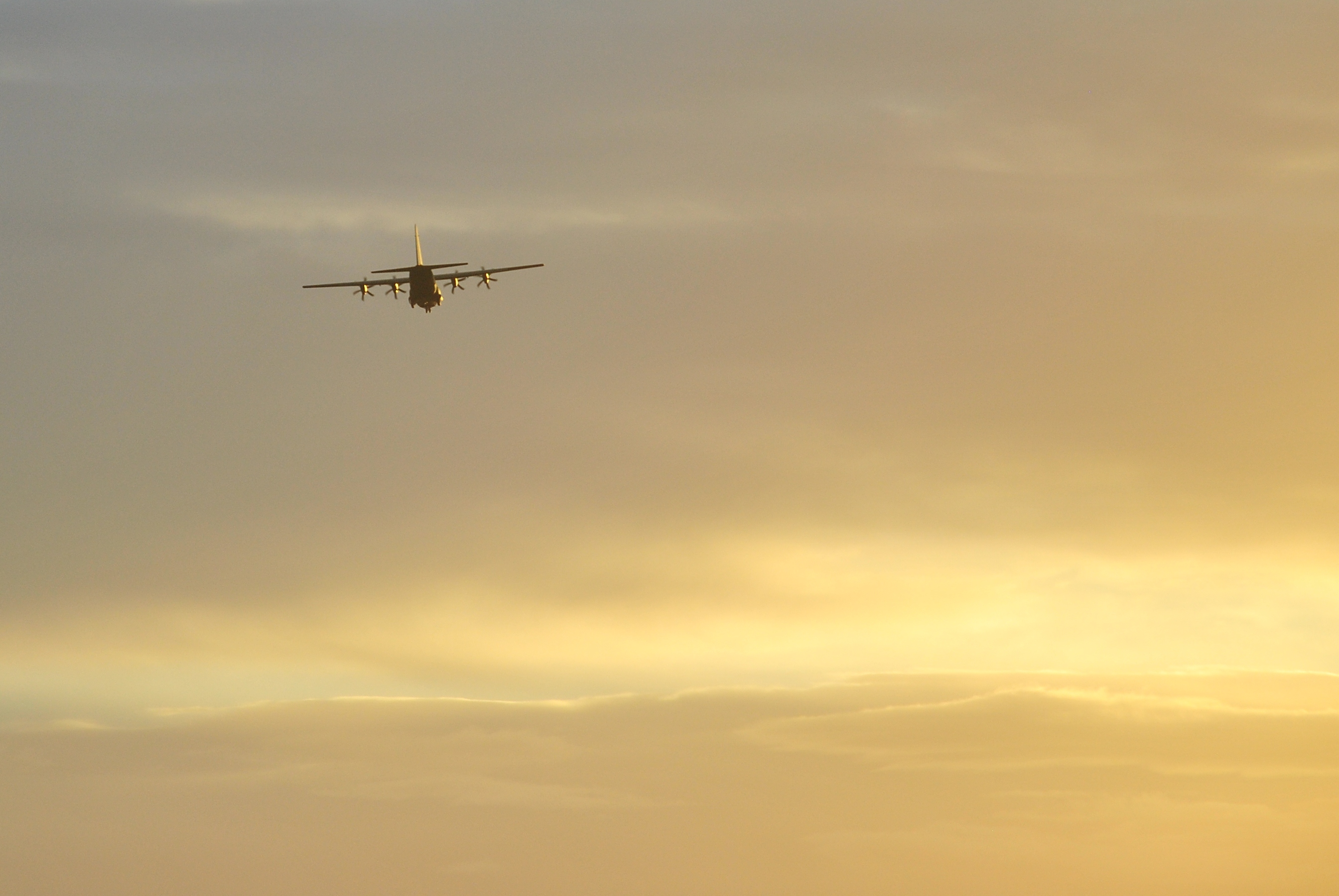 Flying into the sunset ! This RAF Hercules came right over us as we were driving back towards Mount Pleasant on the Stanley Road. Wrong lens on the camera sady !!